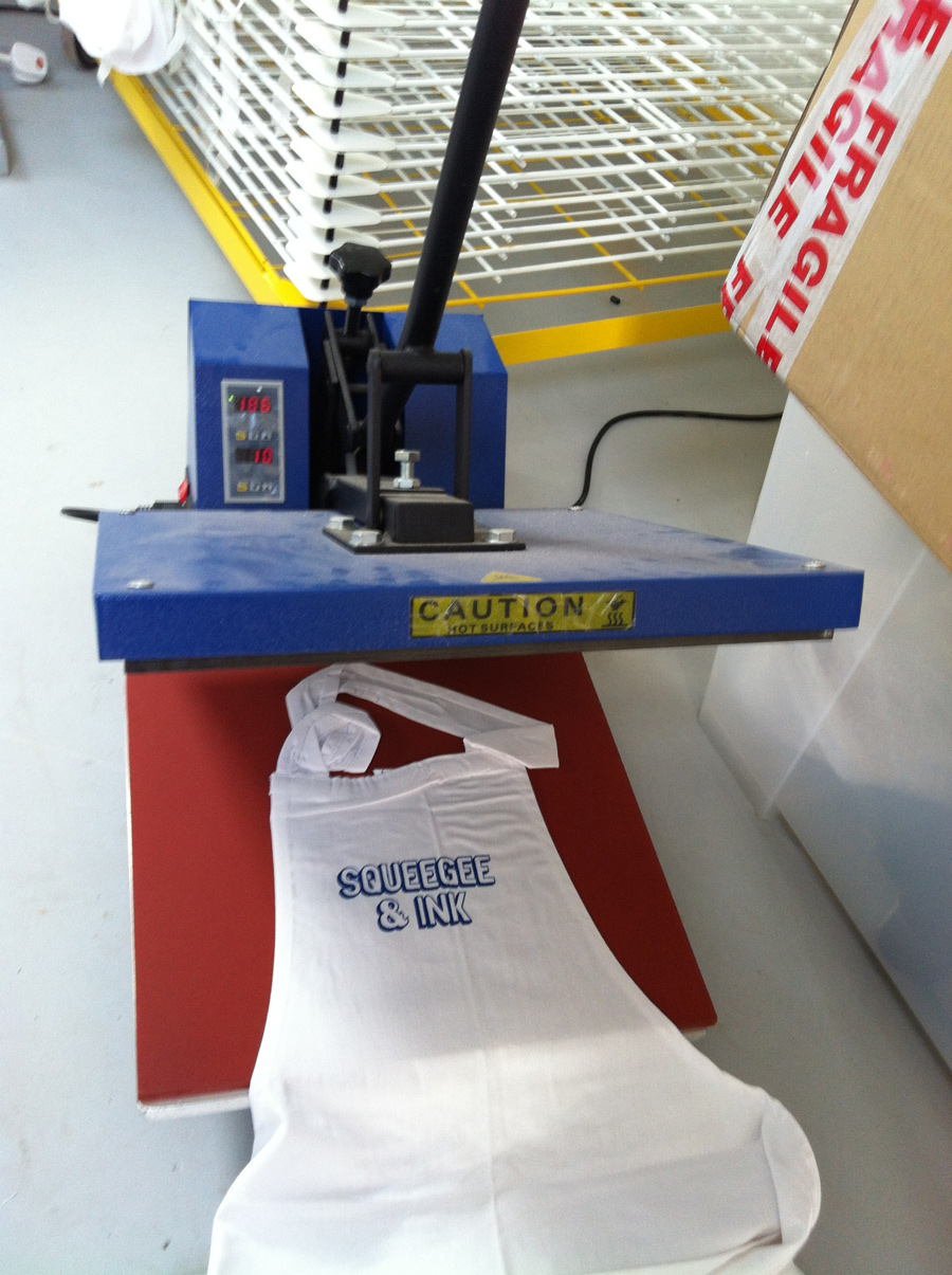 Screen printed fabric on heat press machine to sure ink in studio